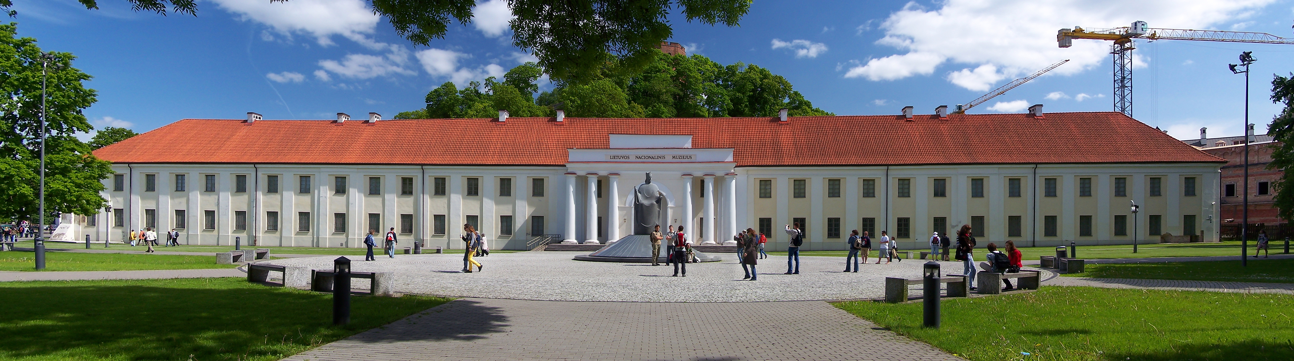 The New Arsenal currently housing a National Museum of Lithuania in Vilnius.